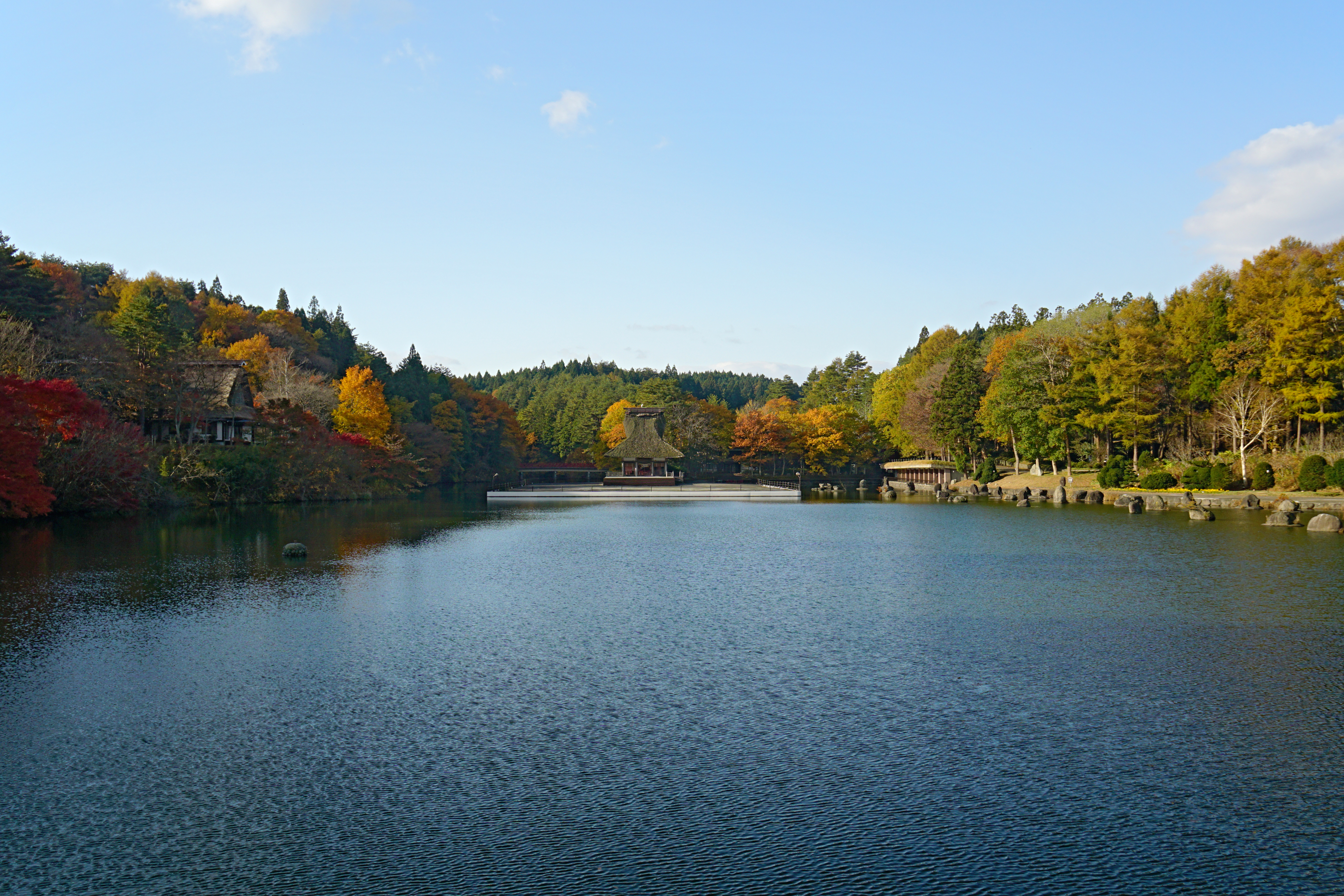 At Komaki Onsen Shibusawa Park in Misawa, Aomori prefecture, Japan.